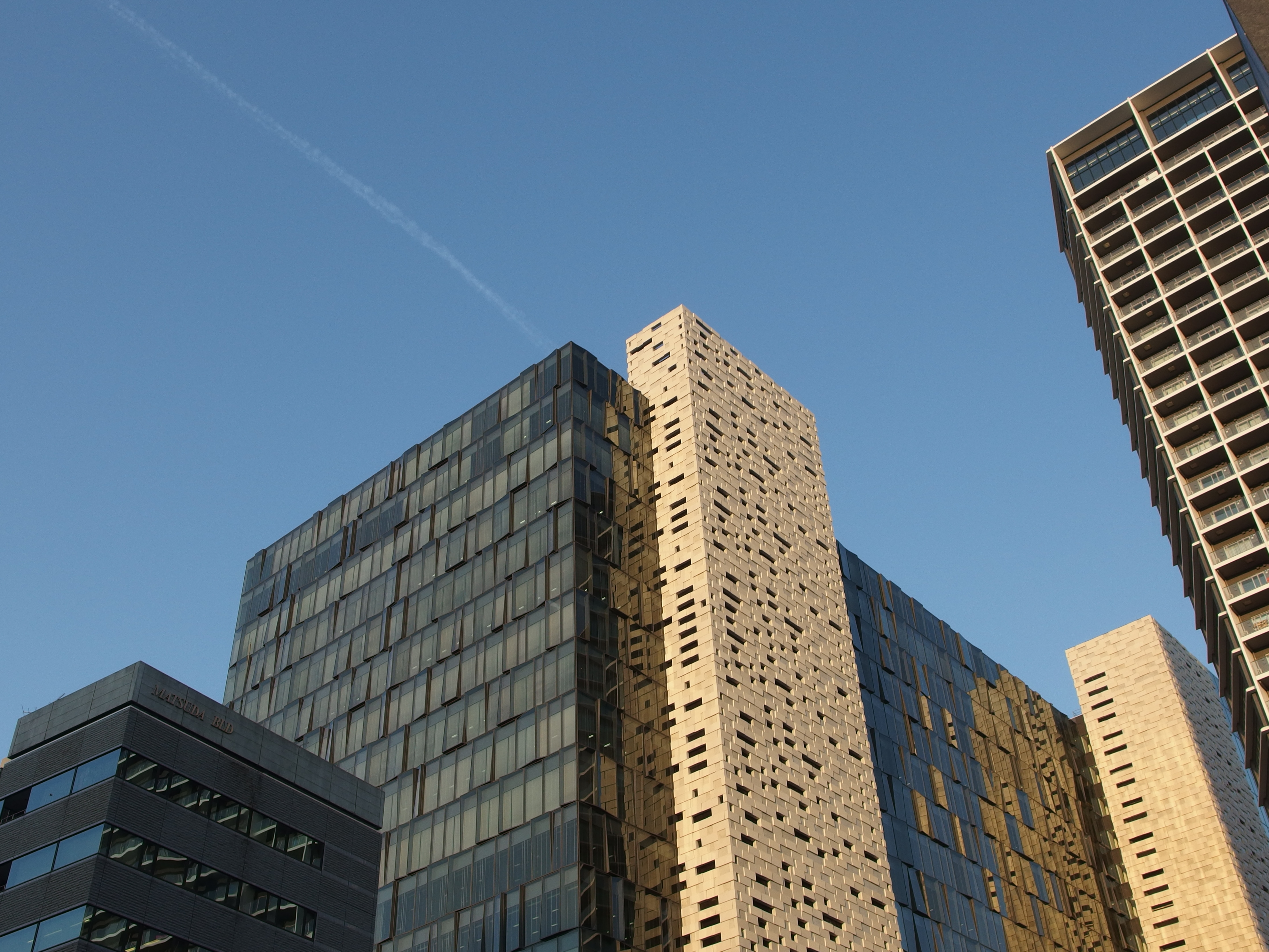 Square Enix building